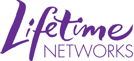 Logo for the US television network Lifetime